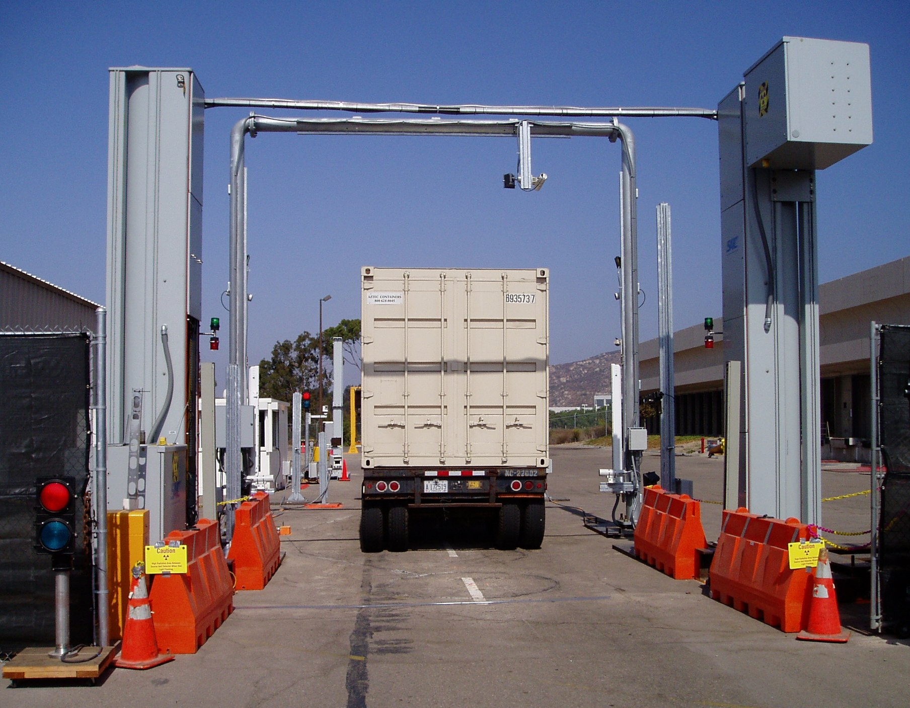 Portal VACIS gamma-ray radiography device designed to take x-ray like images of cargo containers.